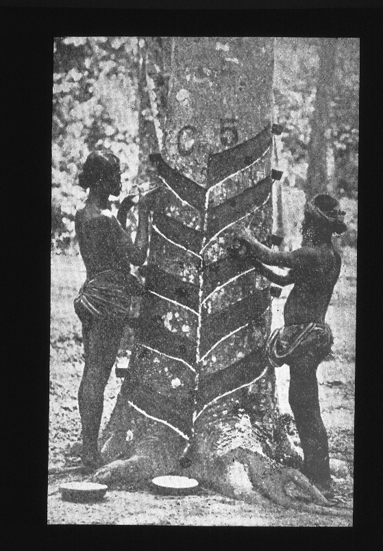 Seeley collection 53 - Natives in Rubber plantation. [Philippine Islands] ; Historical Archives of “National Museum of Health & Medicine”